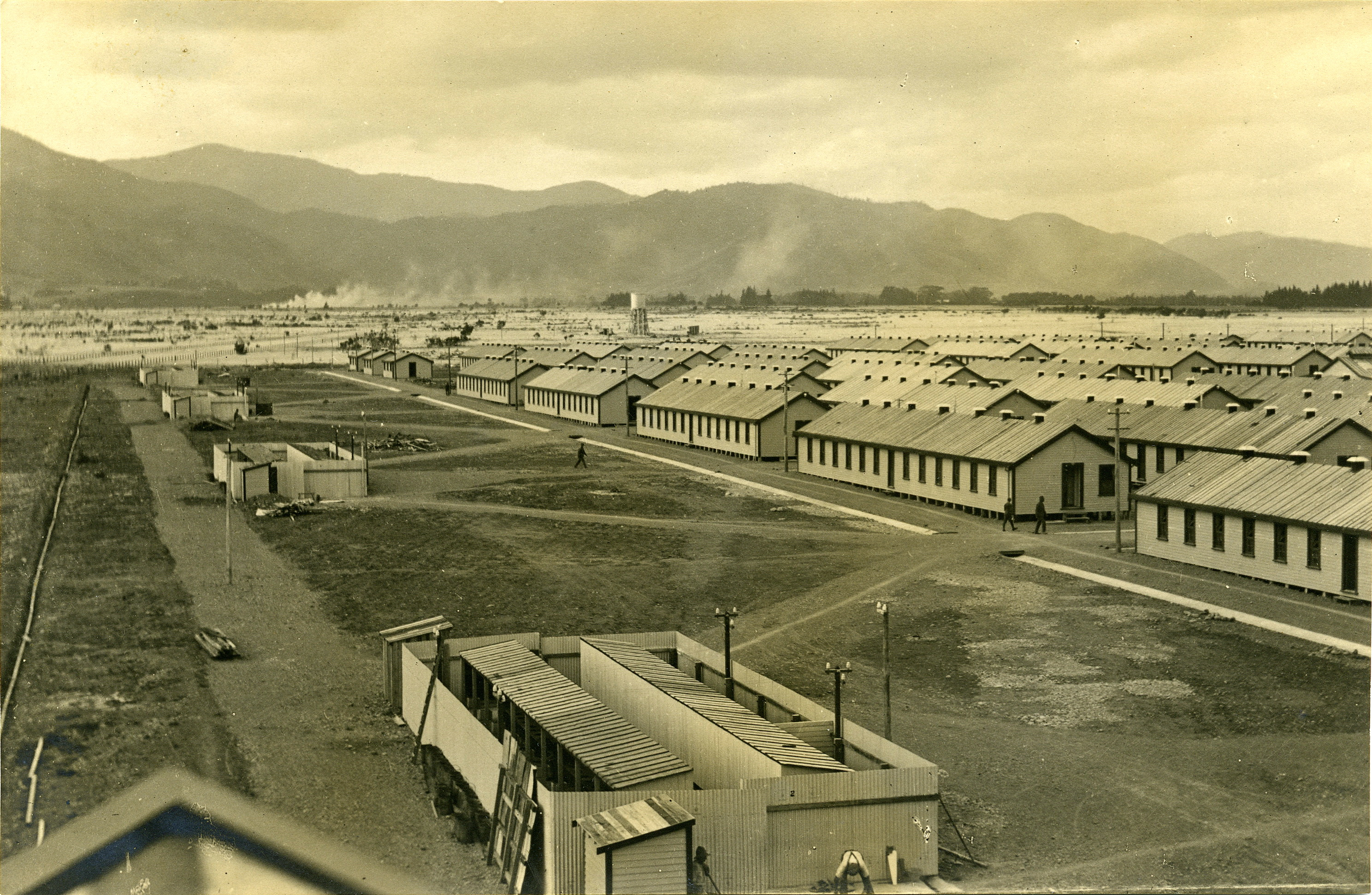 Featherston Military Camp officially opened on 24 January 1916. New Zealand’s largest training camp with over 250 buildings, it helped prepare at least 60,000 men for service in the First World War. At the end of July 1915 the Defence Department had acquired land between Featherston and the Tauherenikau River to build a new training camp for the New Zealand Expeditionary Force. The Public Works Department began building in August 1915, with 1000 workmen on the site by December. The barrack camp, housing 4500, and a tent camp across the road, opened on 24 January 1916, with men from Tauherenikau Camp marching into their new home. Infantry usually trained six to eight weeks, while mounted riflemen and artillerymen did virtually all their training at the camp. Men drilled and worked at the training grounds close to camp, and route marched and rode further afield. There were associated camps at Canvas Camp, Tauherenikau and Papawai. At times there were almost 10,000 troops in the Wairarapa. In addition to 90 barracks (called hutments in New Zealand) there were religious institutes, a canteen, soldiers’ club, hospital facilities, stables and shops. The camp was connected by a rail spur to the main Wellington-Masterton line. When training finished at war’s end, the camp was used briefly as an internment camp, tuberculosis and venereal disease hospital and an ordnance store for equipment from the war. 243 soldiers died during the camp’s operation, with over 160 dying during the influenza epidemic in late 1918. Photo Reference: Archives New Zealand (Ref: AEGA 18982, PC4/1593, R18288348) Material From Archives New Zealand